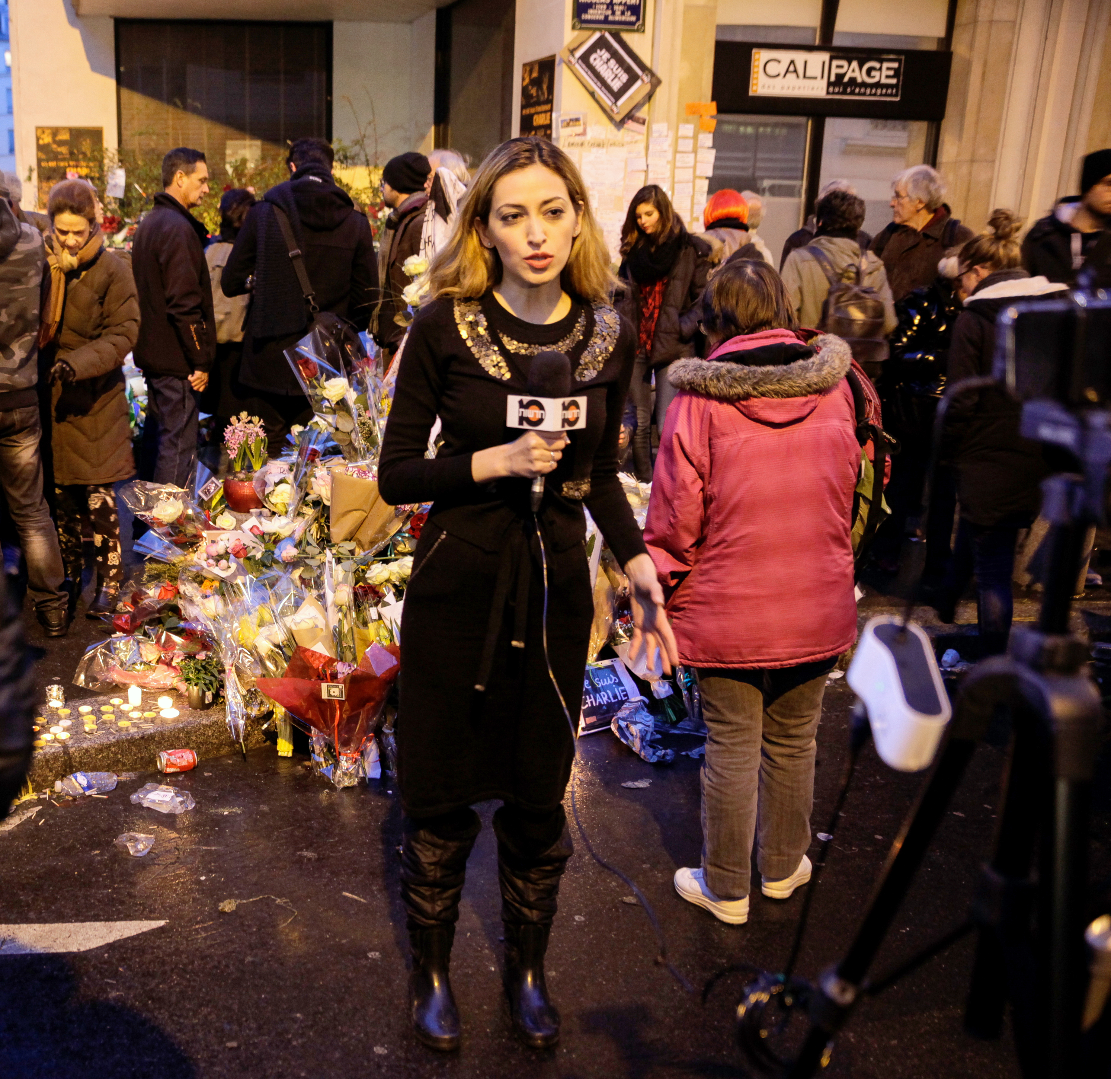 Miri Michaeli broadcasting from Rue Nicolas-Appert, Paris, one day after the Charlie Hebdo shooting.